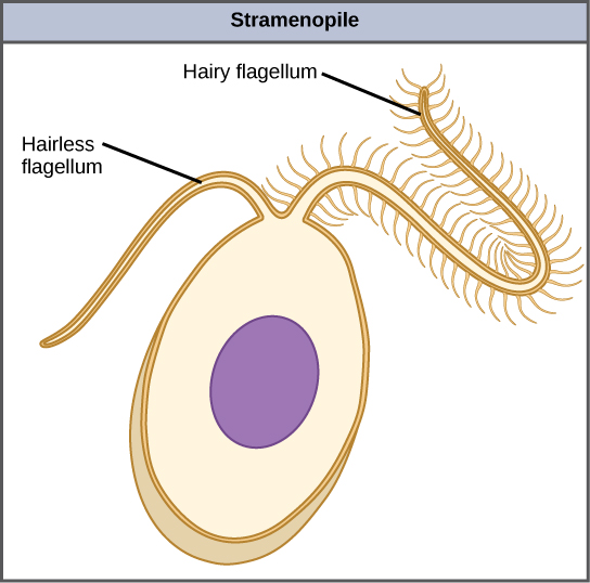 Name: Biology ID: Language: English Summary: Biology is designed for multi-semester biology courses for science majors. It is grounded on an evolutionary basis and includes exciting features that highlight careers in the biological sciences and everyday applications of the concepts at hand. To meet the needs of today’s instructors and students, some content has been strategically condensed while maintaining the overall scope and coverage of traditional texts for this course. Instructors can customize the book, adapting it to the approach that works best in their classroom. Biology also includes an innovative art program that incorporates critical thinking and clicker questions to help students understand—and apply—key concepts. Subjects: Science and Technology Keywords: cells,DNA,gene,expressio,nphylogeny,conservation,biodiversity,biology,chemistry,evolution,proteins,bacteria,fungi,cell,membranes,inheritance,physiology,ecology,genetics,biotechnology,biosphere,photosynthesis,biological,molecules,cell structure,metabolismc,ellular respiration,genes,cell communication,cell reproduction,meiosis,sexual reproduction,genomics,study of life,cell function,animal diversity,animal reproduction,plant nutrition,soilseedless plantsplant physiologyplant reproductionanimal bodycirculatory systemdigestive systemendocrine systemnervous systemrespiratory systemorigin of speciesecosystemsarchaeasensory systemosmotic regulationimmune systemvertebratesviruspopulation ecologymusculoskeletal systembehavioral biologyanimal biologyanimal physiologybiology for majorscollege biologyeukaryotesinvertebratesmacromoleculesplant biologypopulation evolutionprokaryotesprotistsseed plants Print Style: CCAP Biology License: Creative Commons Attribution License (by 4.0) Authors: OpenStax Copyright Holders: Rice University Publishers: OpenStax OpenStax Biology Latest Version: 10.53 First Publication Date: Aug 22, 2012 Latest Revision: May 27, 2016 Last Edited By: OpenStax Biology